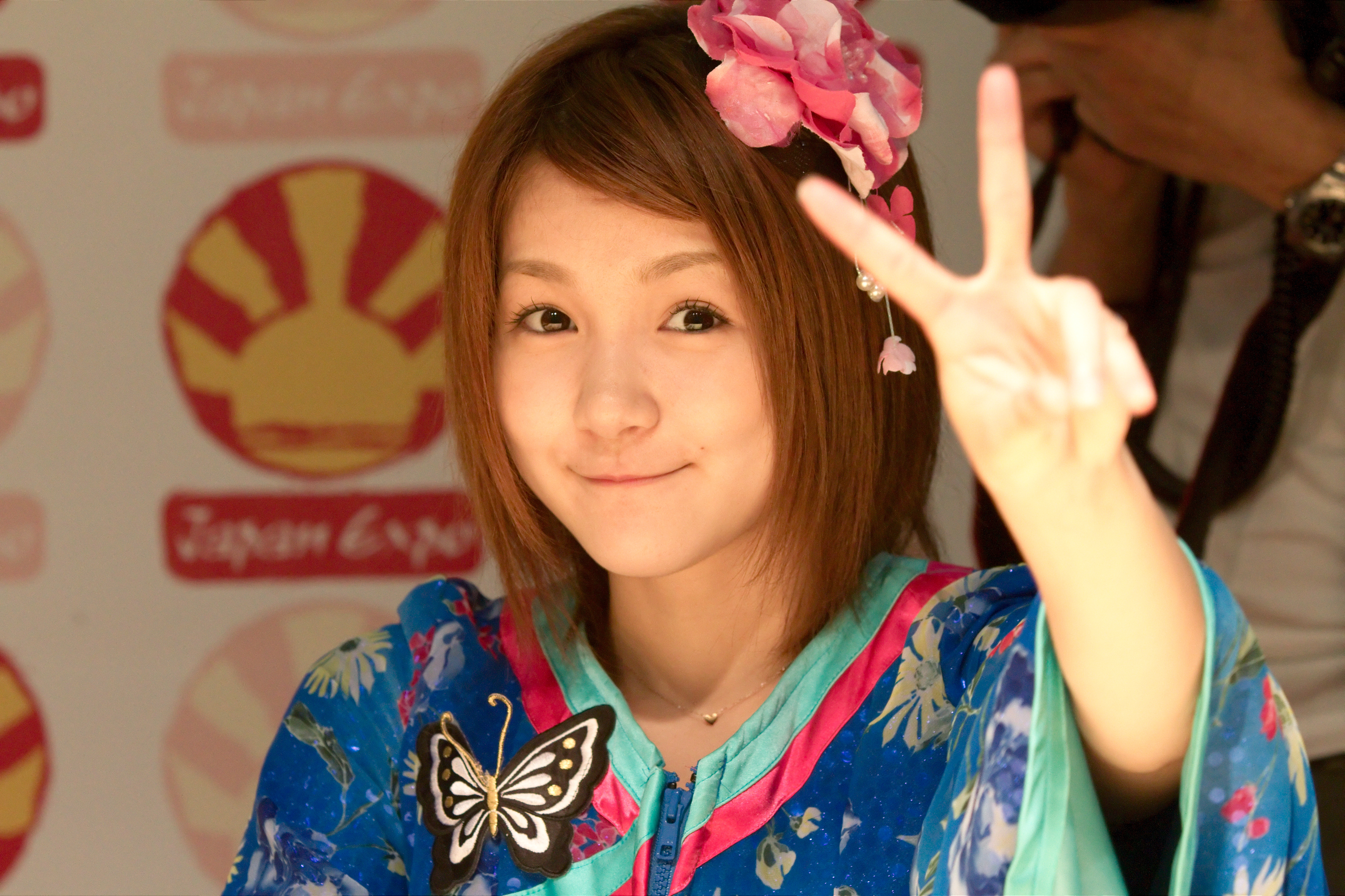 Aika Mitsui of Morning Musume during autograph session at Japan Expo, Sunday, July 03, 2010 (Paris, France).